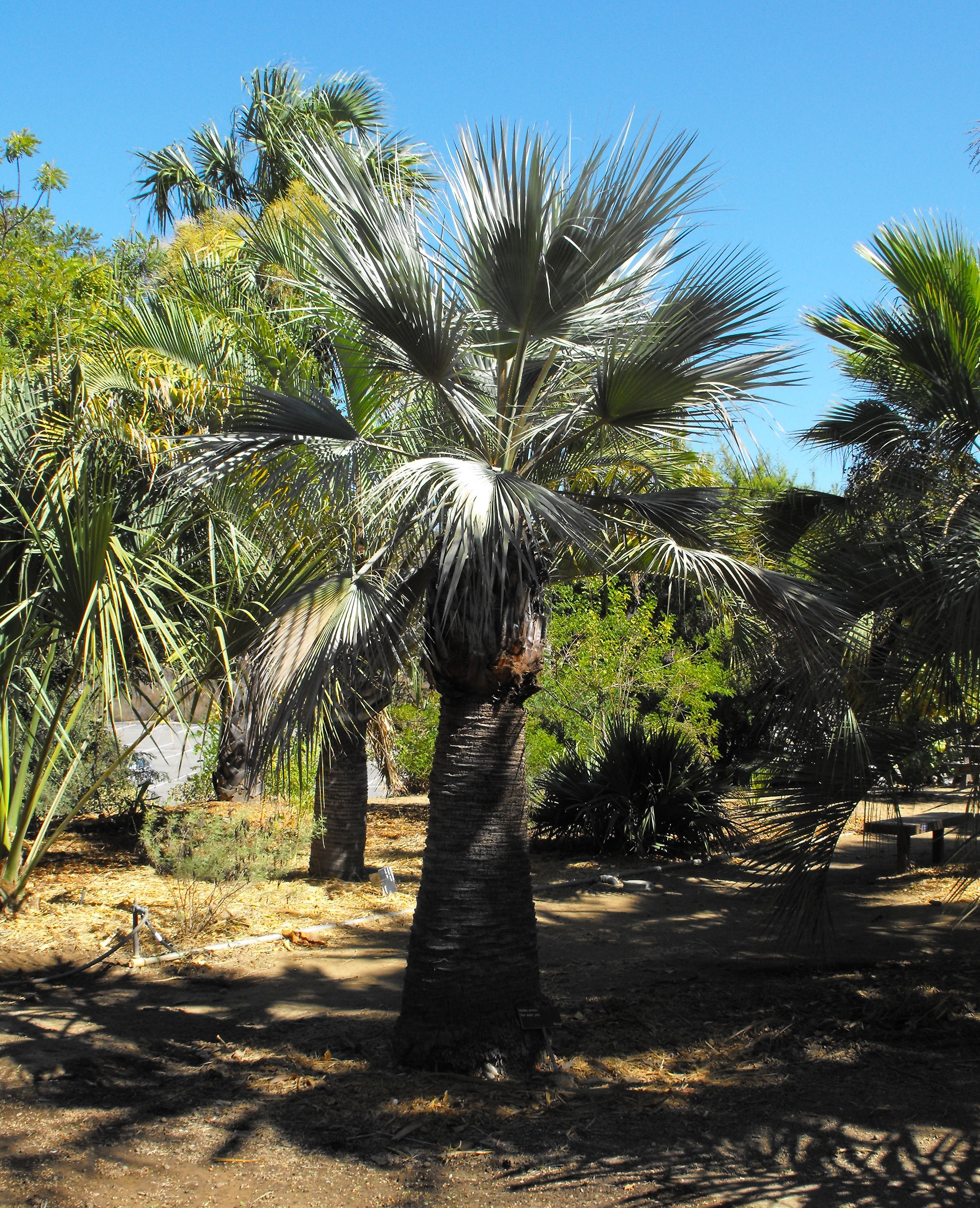 Brahea armata at the Palomar College Arboretum, San Marcos, California, USA. Identified by sign.